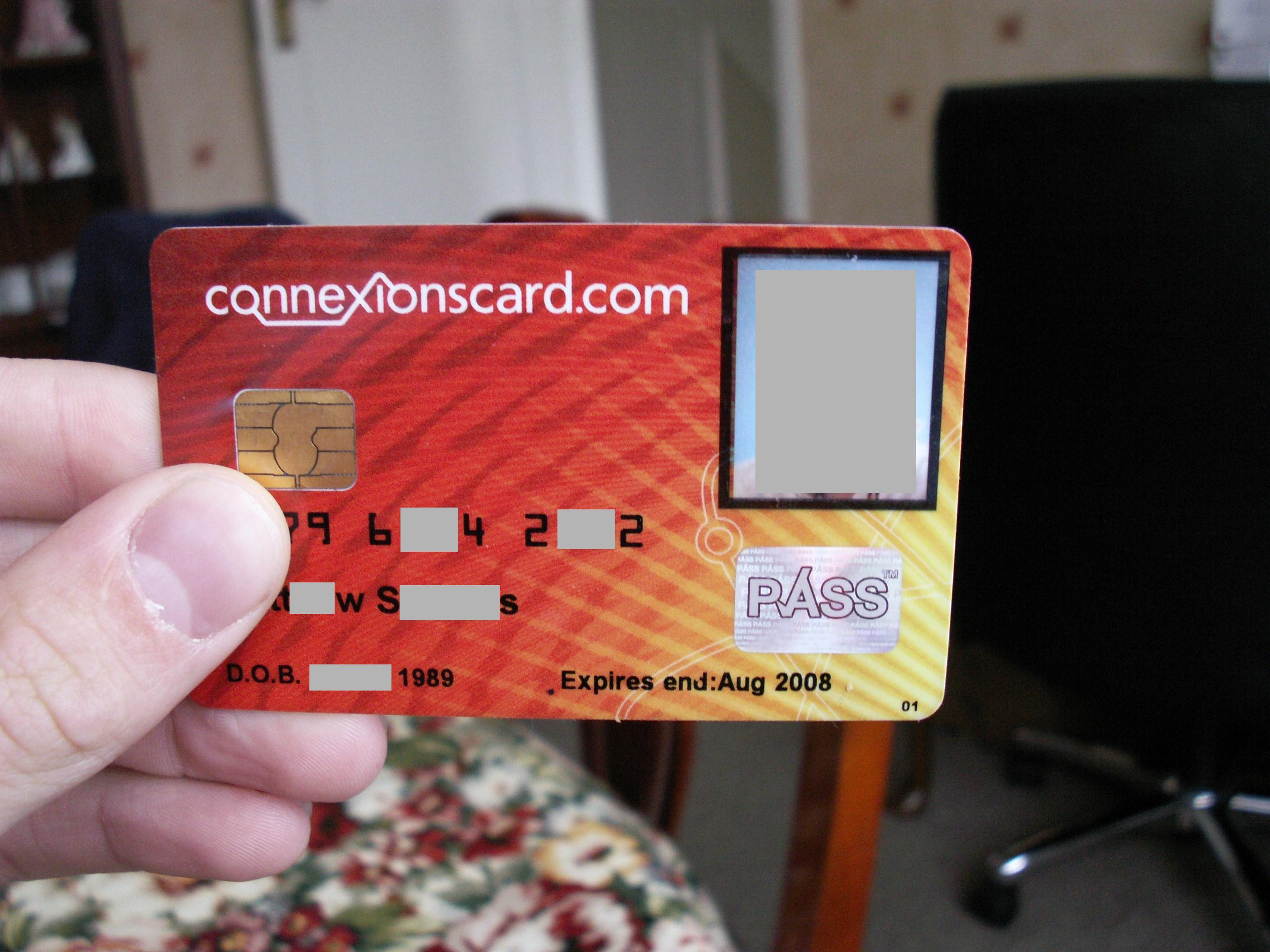 A typical connexions Card (censored)